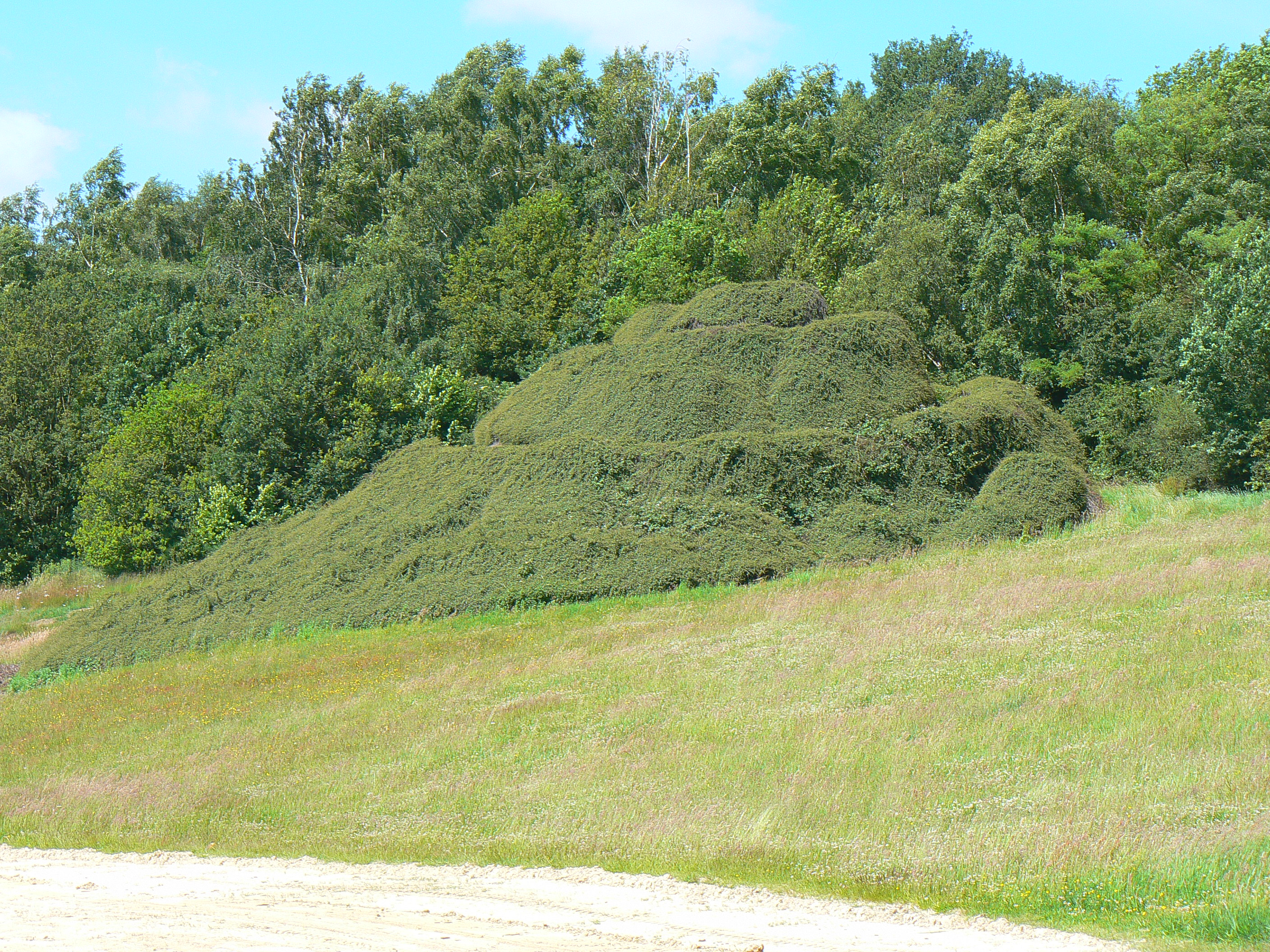 Broken Circle and Spiral Hill (1971) by Robert Smithson in Emmen/The Netherlands